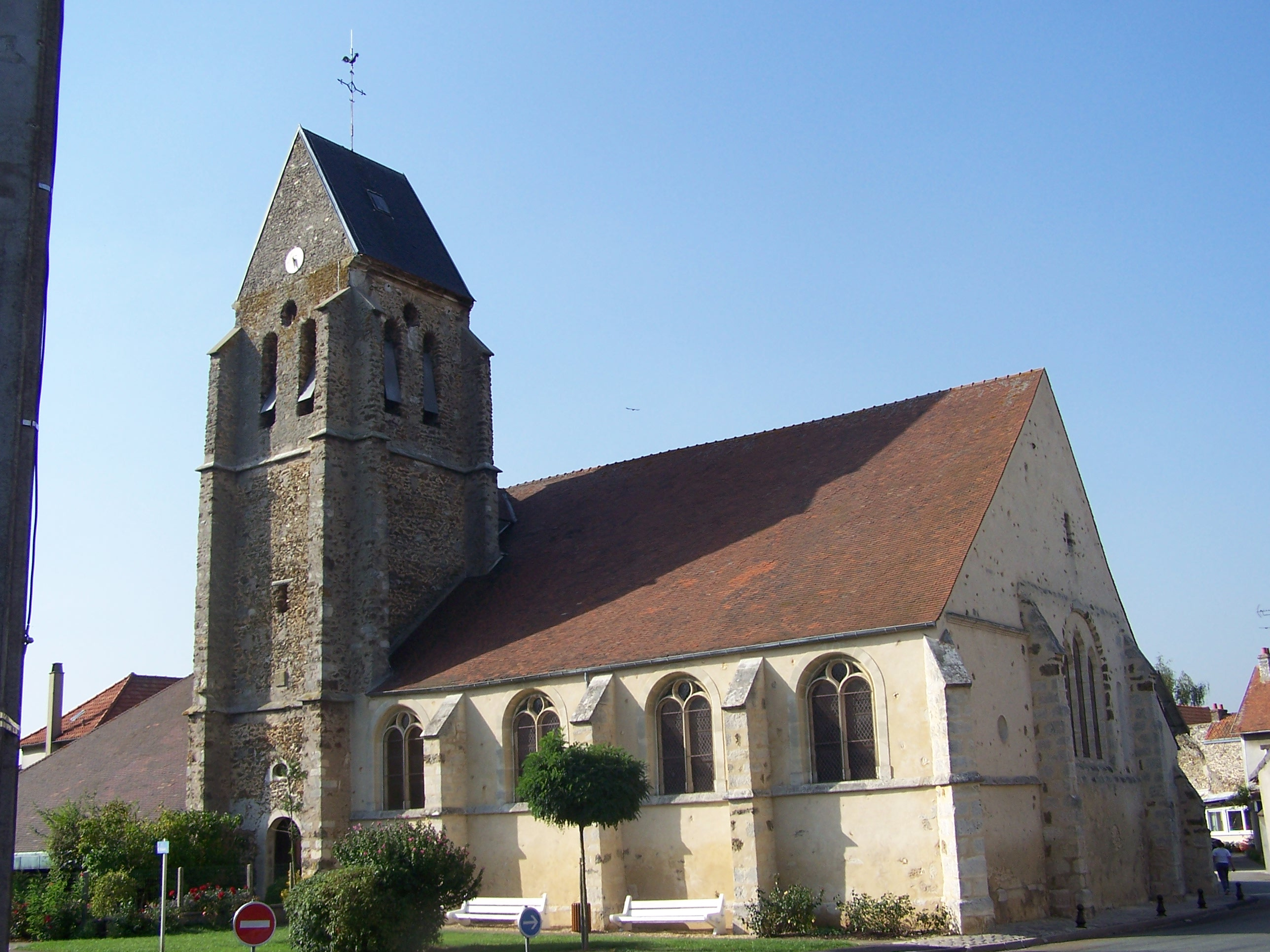 Church St Gilles-St Leu in Bois d'Arcy (Yvelines, France). Personal picture.